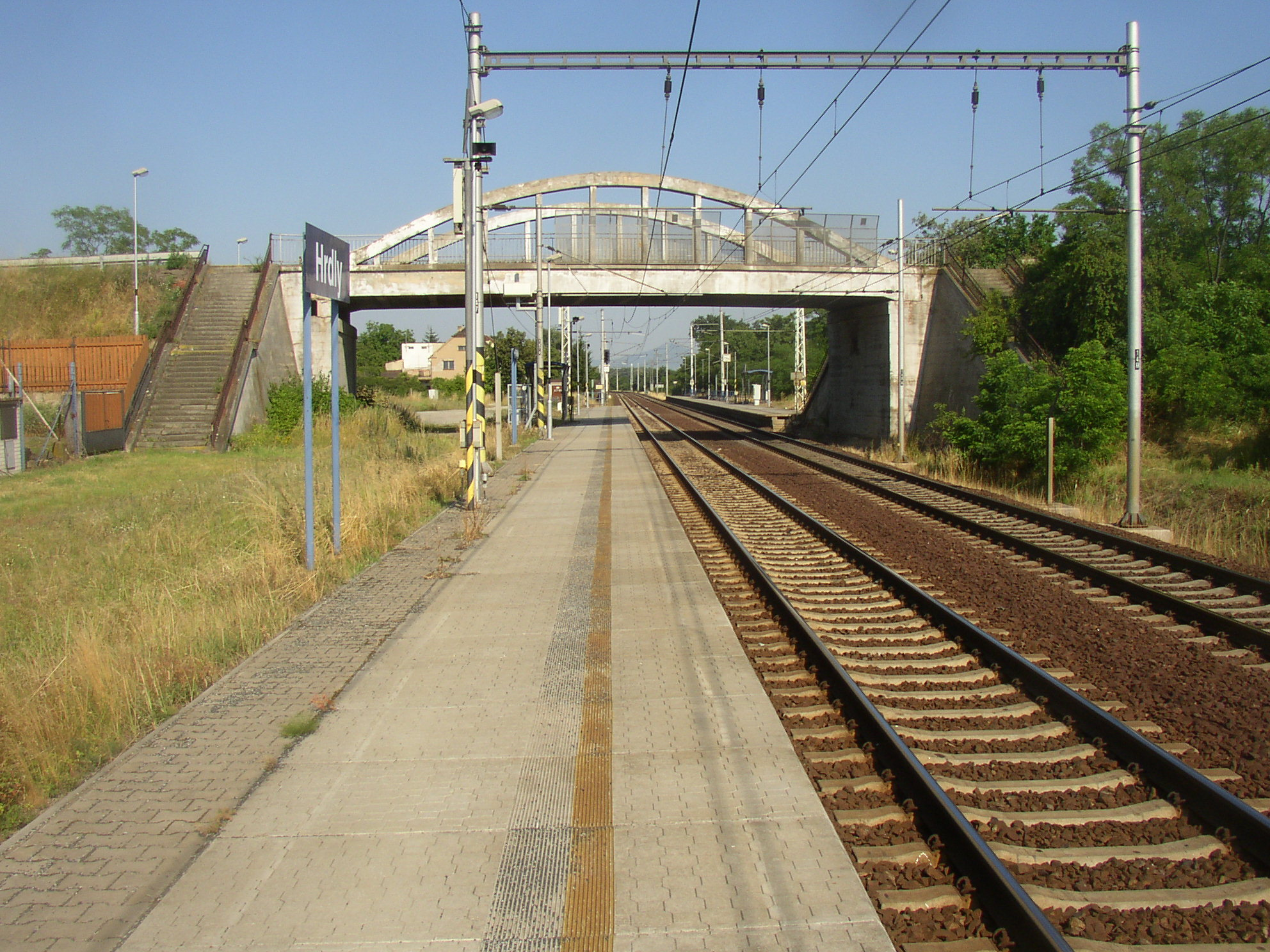 Bridge of Doksany - Terezín road over backbone 090 railway line from Prague to Děčín at Hrdly station. A view towards the northwest from platform used by trains bound for Prague.